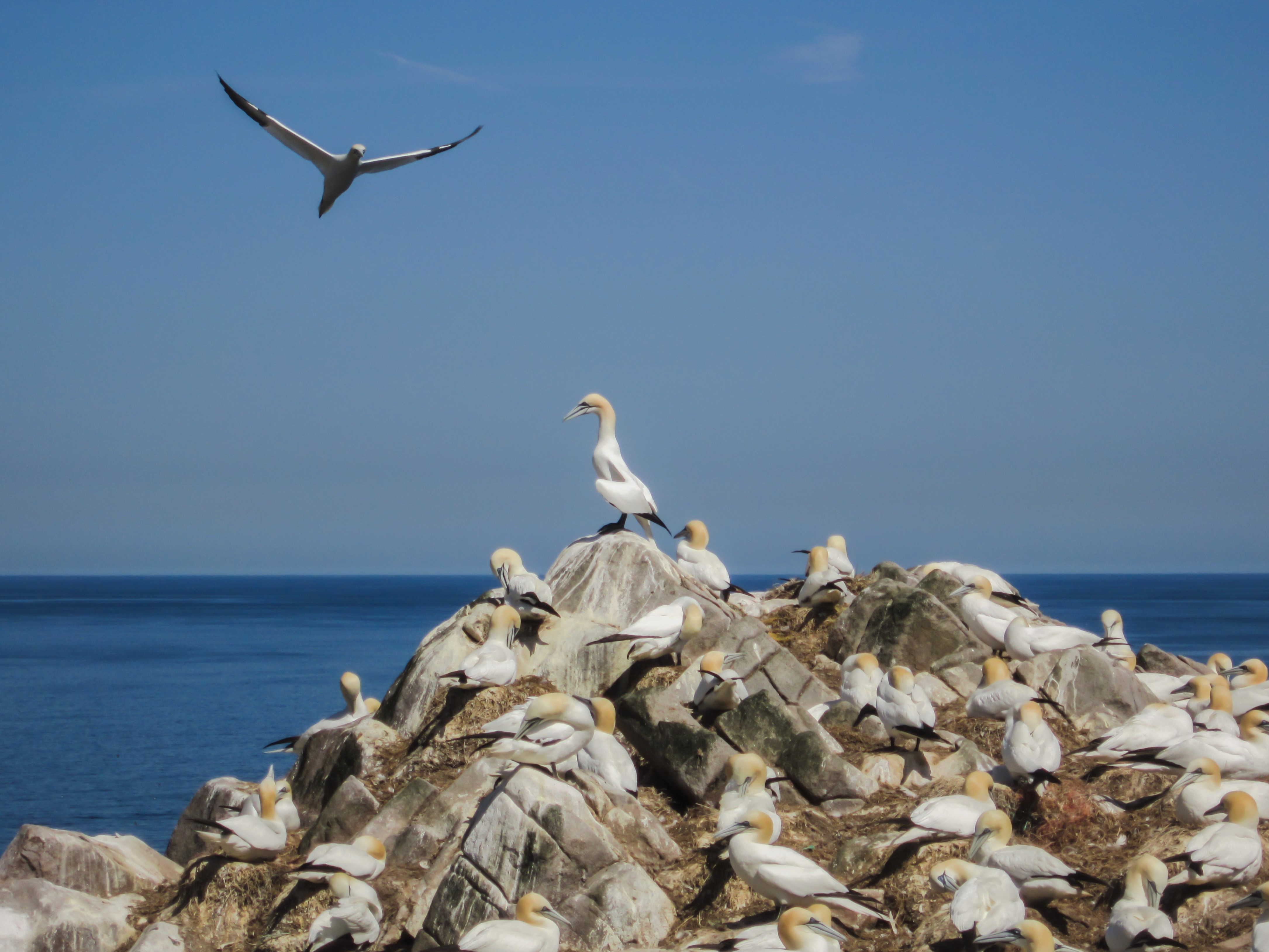 Gannets on Great Saltee Island, June 2013